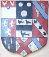 Heraldic escutcheon on monument in Wellington Church, Somerset, to Sir John Popham (1531-1607), Lord Chief Justice of England. Quarterings: 1: Argent, on a chief gules two stag's heads cabossed or (Popham) 2: Sable, three plates 3: Gules, a pair of wings in lure argent overall a bend azure (Seymour?) 4: Per pale azure and gules three lions rampant argent (Herbert) 5: Argent, a fess between three martlets sable a crescent of the last for difference (?) 6: Gules, on a bend argent three escallops sable (Knoell, Knolle, Knowles, etc., for Isabel Knolle daughter and heiress of Thomas Knolle and wife of John Popham (d.1536) of Huntworth, grandfather of Sir John Popham (d.1607), as shown on monument to Katherine Popham (d.1588), mother of Sir William Pole, in Colyton Church, Devon (Source:Skinner, A.J.P., Devon Notes & Queries, Vol.IX, Jan 1916-Oct 1917)) 7: Sable, three fishes palewise tails uppermost argent (Unknown family, apparently a Knolle heiress) 8: Argent, a saltire gules between four eagles displayed azure (Hampden, an heiress of Knolle, as shown on monument to Katherine Popham (d.1588), mother of Sir William Pole, in Colyton Church, Devon (Source:Skinner, A.J.P., Devon Notes & Queries, Vol.IX, Jan 1916-Oct 1917)) 9: Per pale argent and gules overall a bend azure (?)